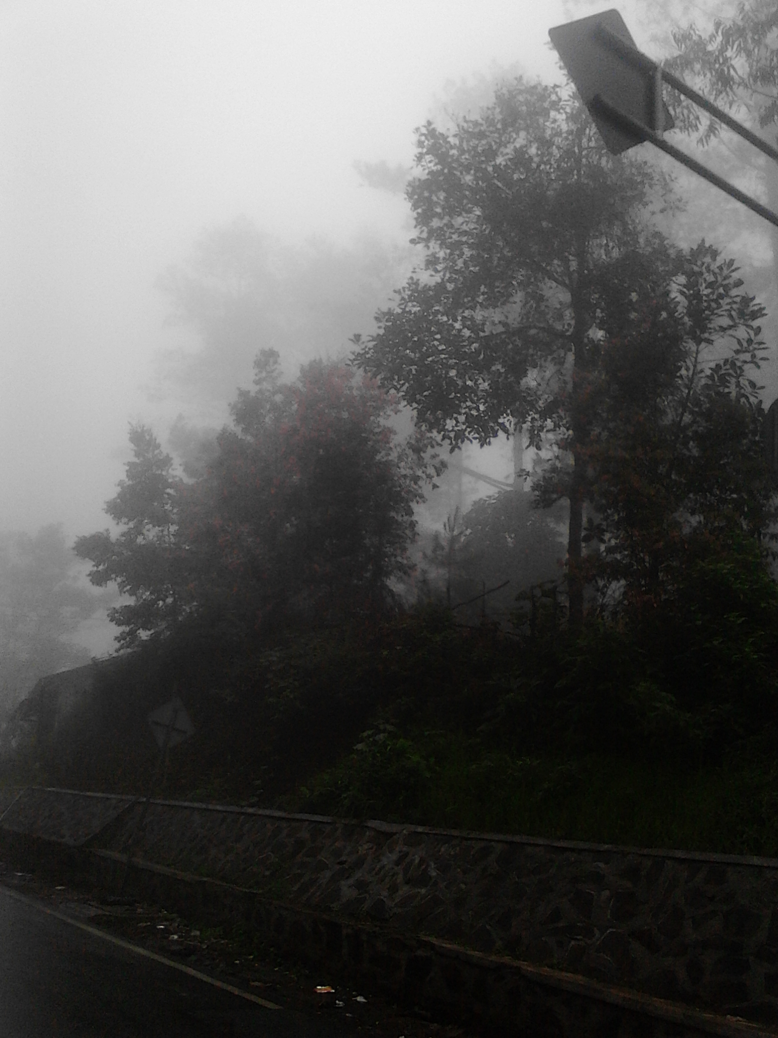 Dense fog forms from a Stratus cloud on a mountain near Ciater, Indonesia.